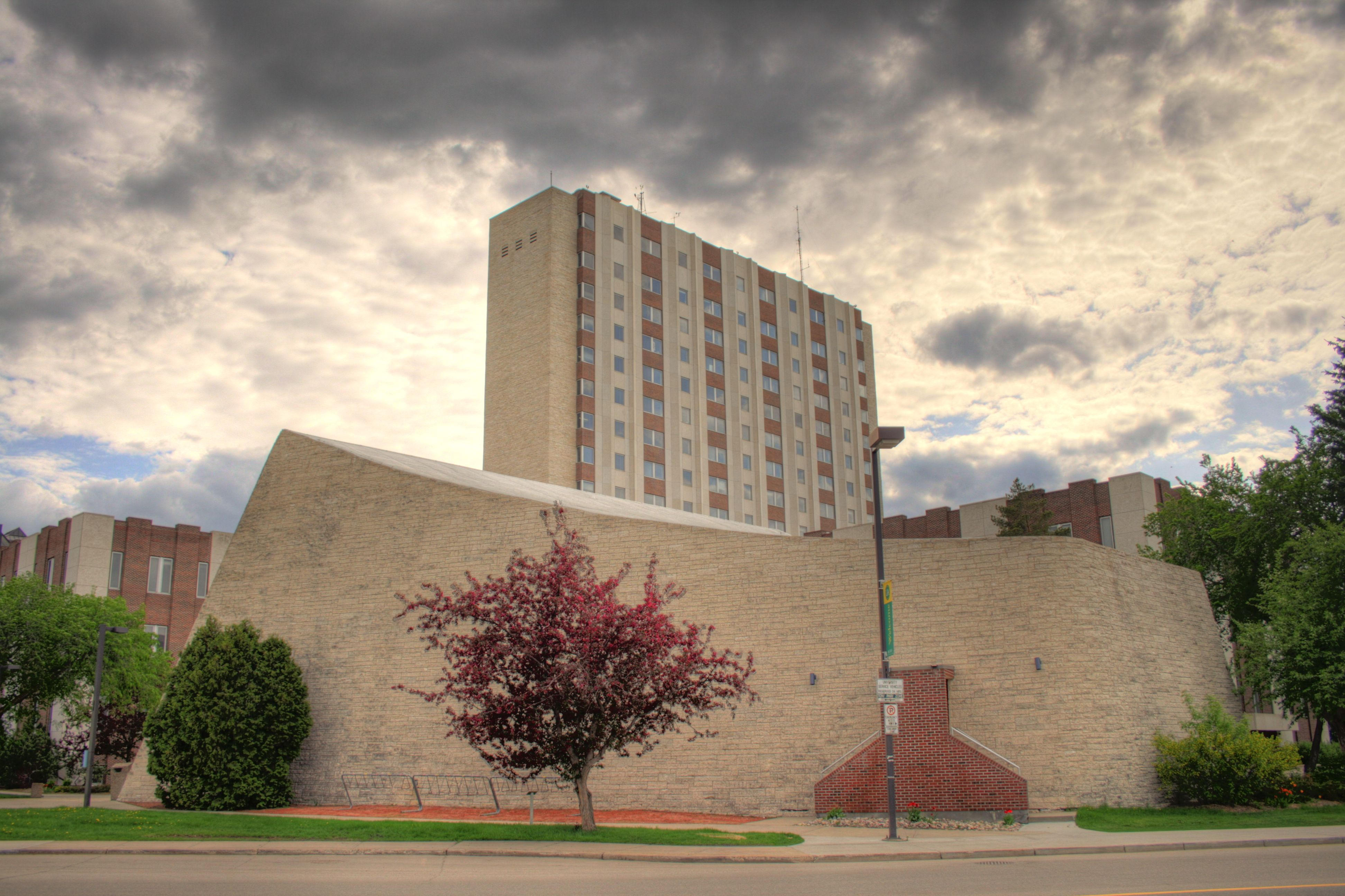 Tory Building and Tory Lecture Theatres on the campus of the University of Alberta, Edmonton, Alberta, Canada.